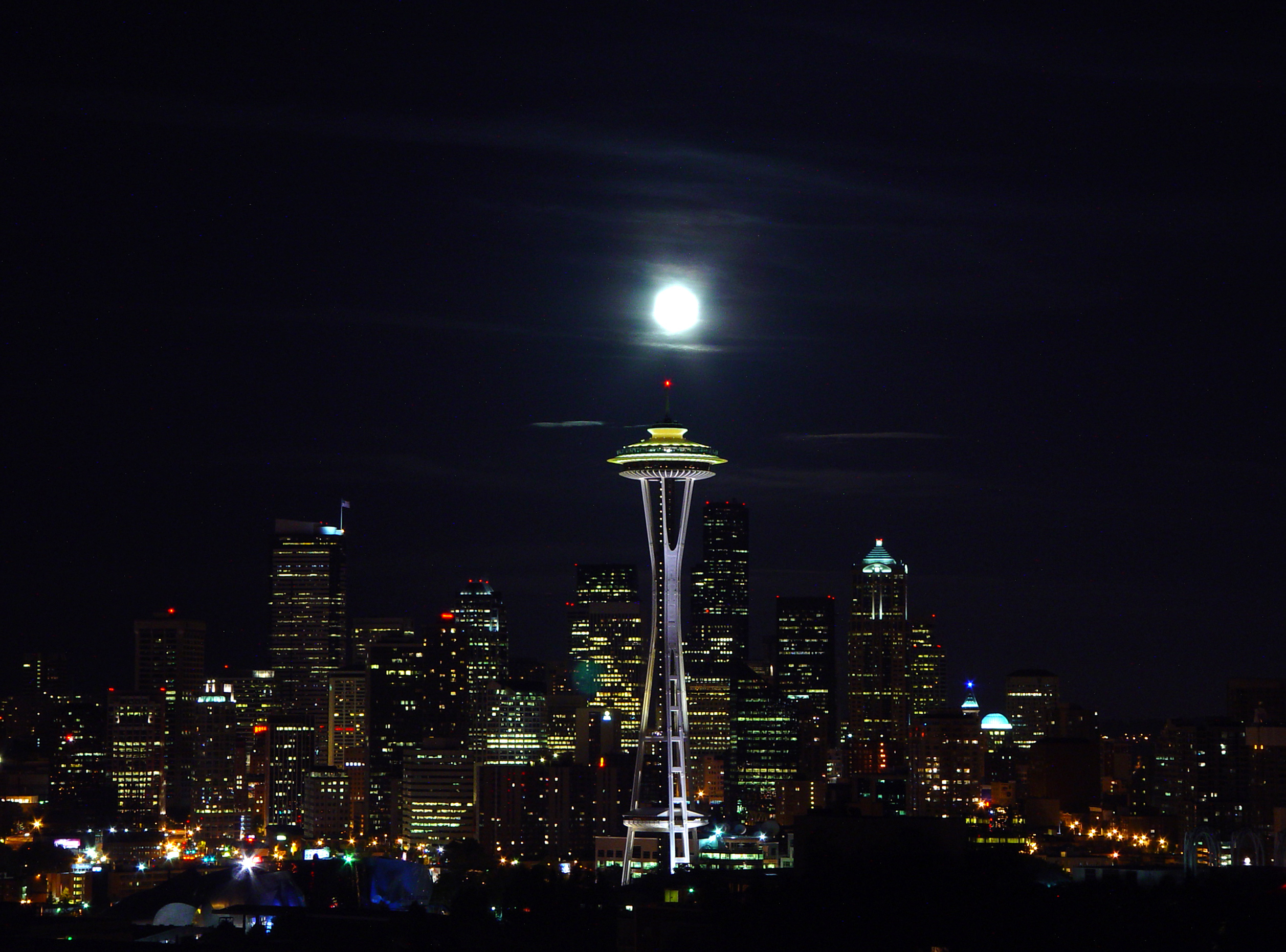 Picture of the Seattle skyline at night, with the Space Needle at center. It was taken by me in summer 2002.